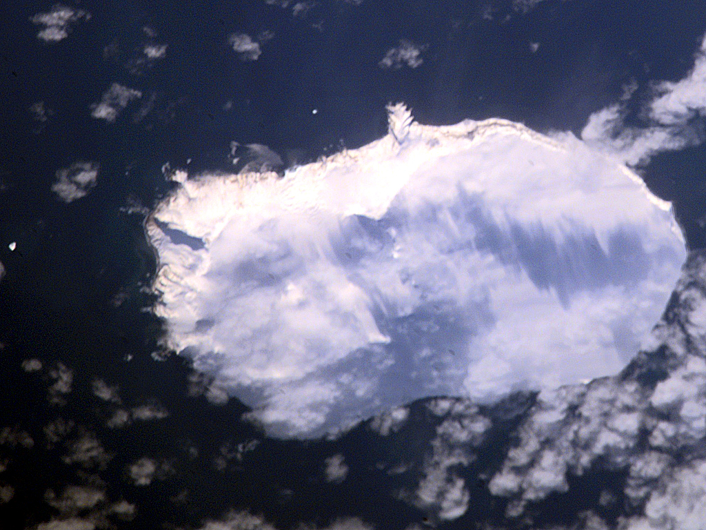 NASA astronaut image of Bouvet Island in the Southern Atlantic Ocean